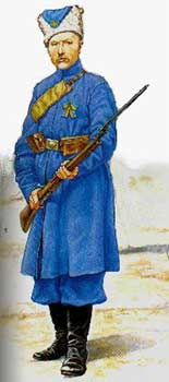 A picture of a Ukrainian soldier of the so called "Blue Division" of the UPR's army (1917-1921)